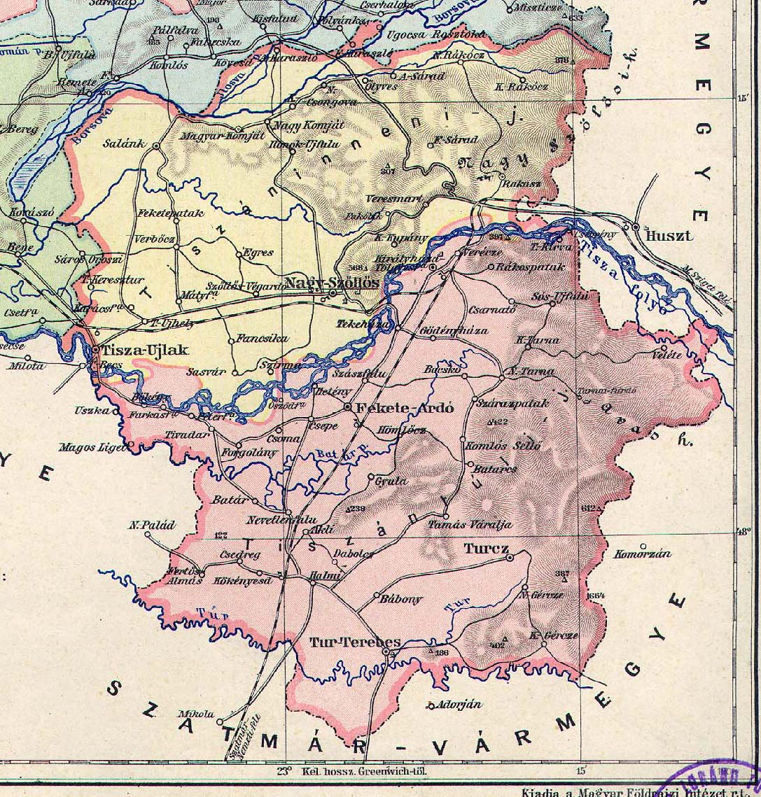 Administrative map of the county of Ugocsa in the Kingdom of Hungary